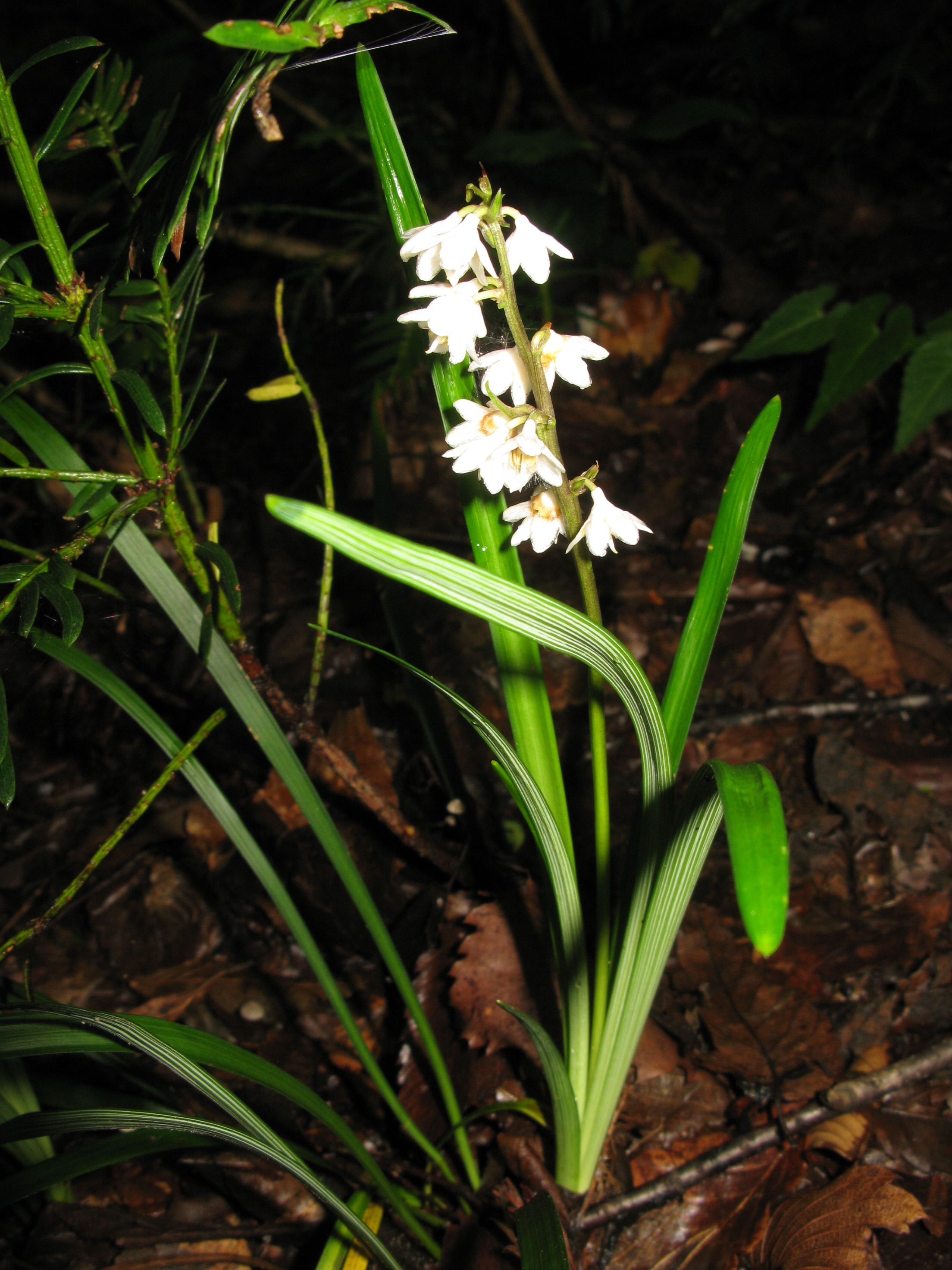 Ophiopogon planiscapus, Aizu area, Fukushima pref., Japan